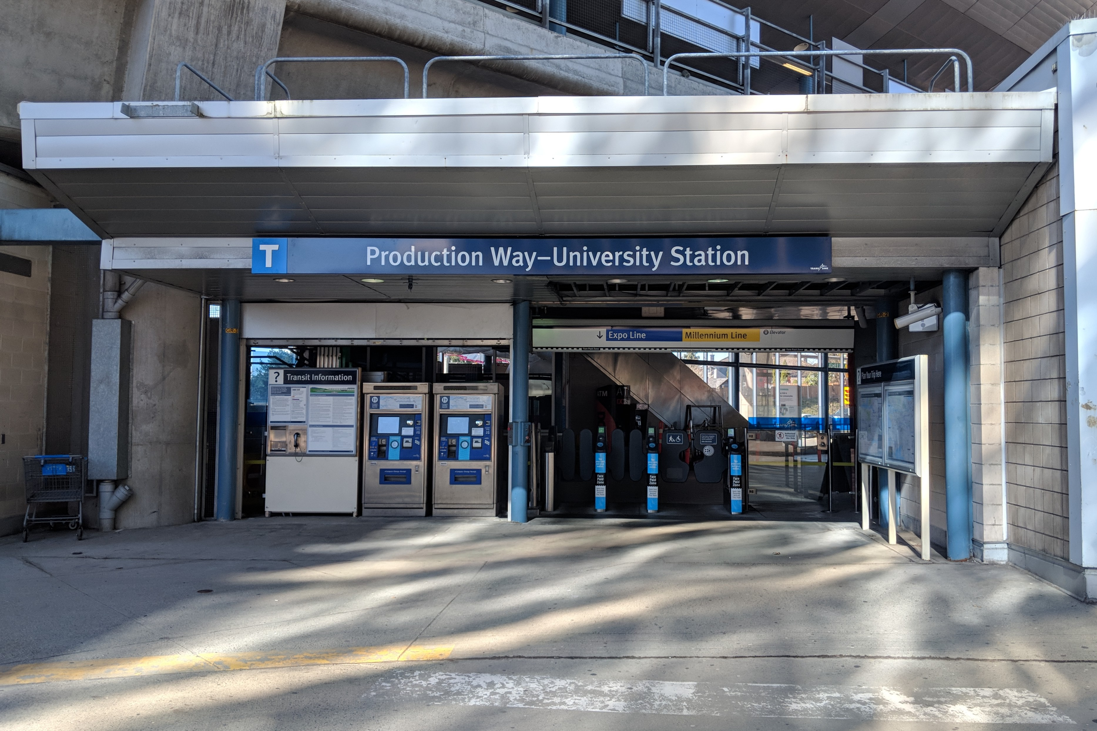 Secondary entrance to Production Way–University station. This entrance connects to the stations bus exchange.